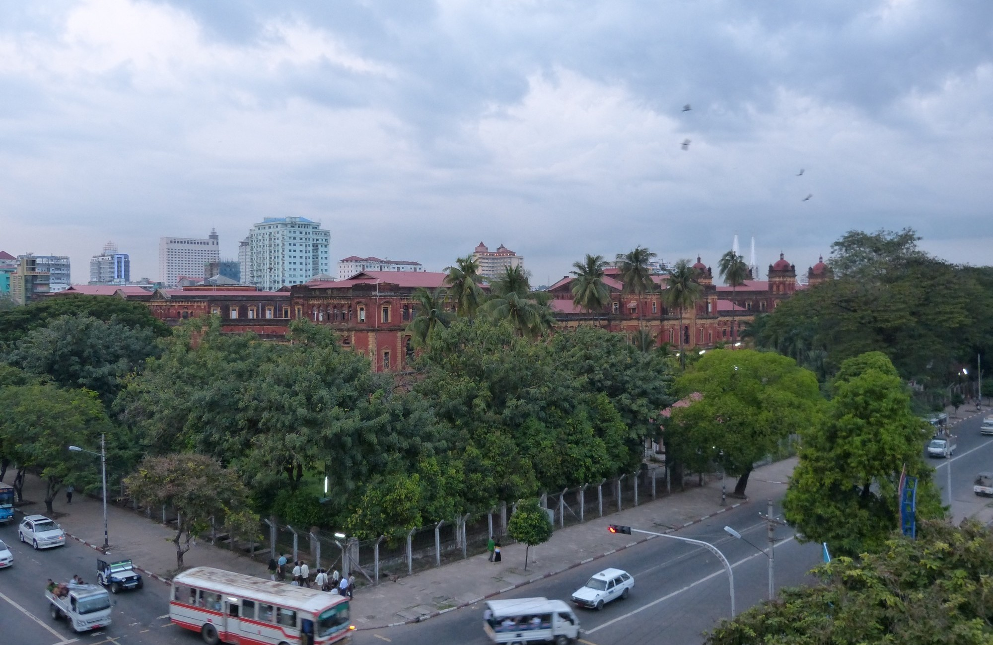 the Secretariat, Yangon